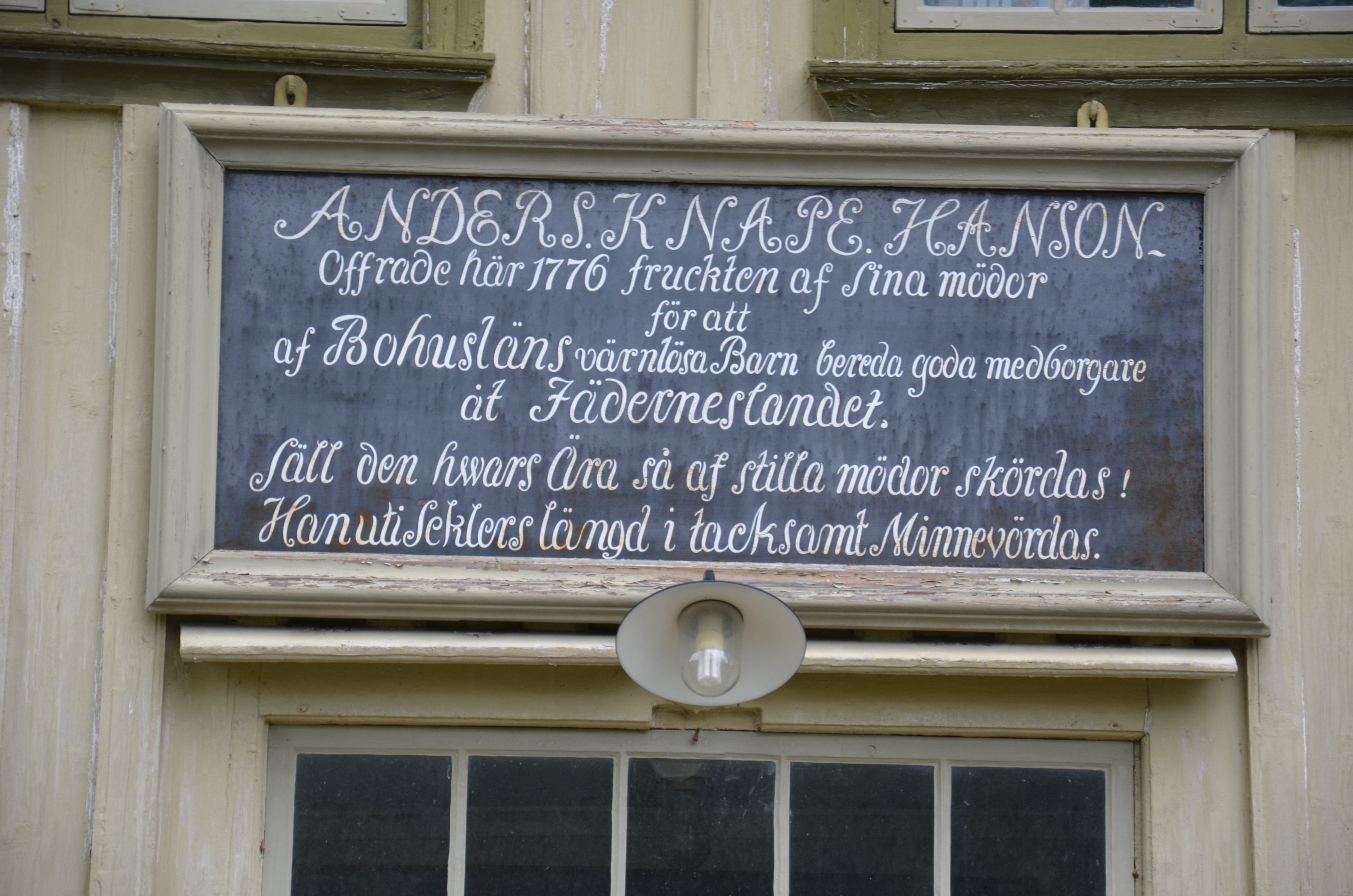 Gustafsberg, Uddevalla, Sweden. Skolhemmet Herrgården, skylt över entré.